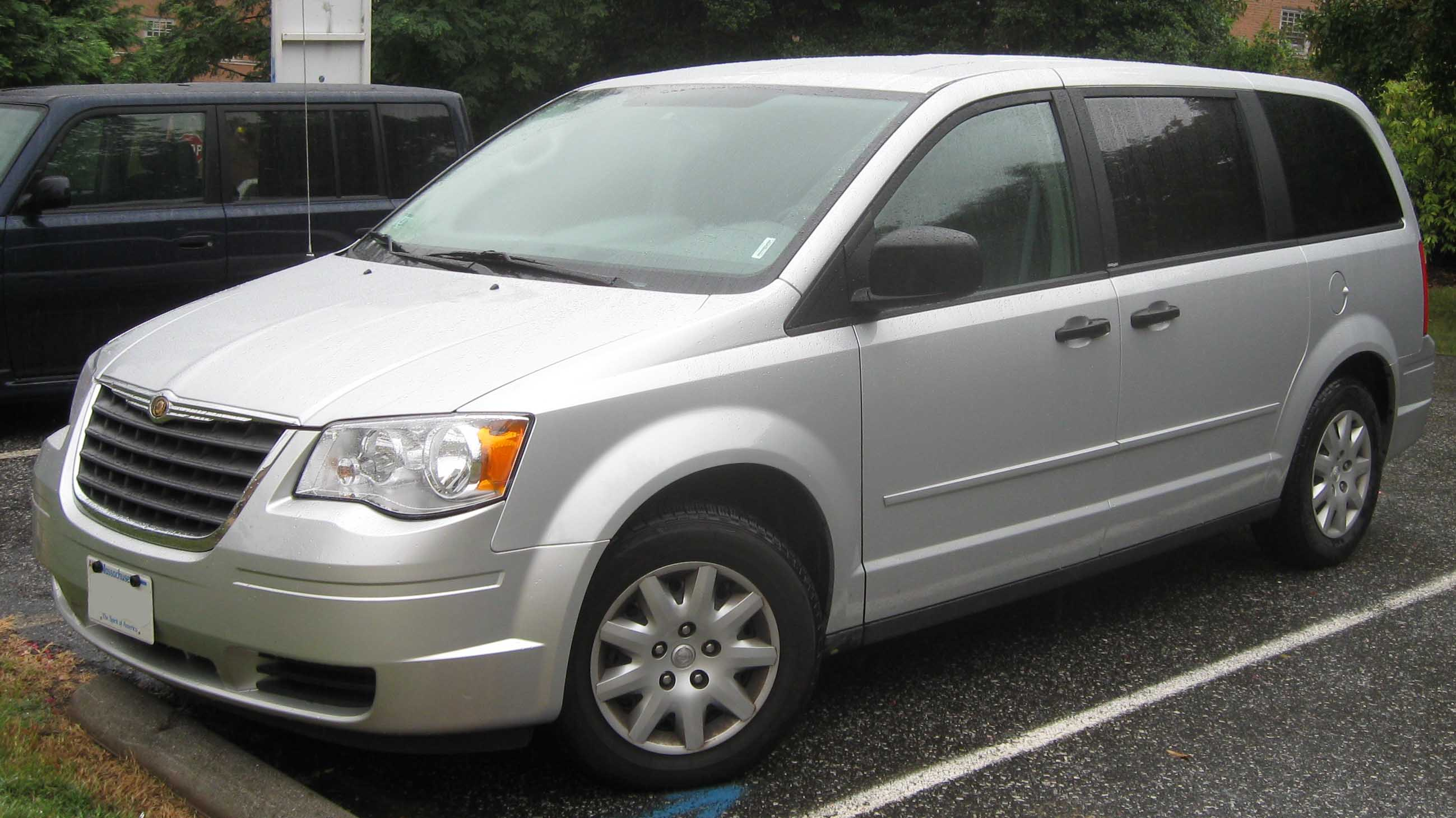 2008-2010 Chrysler Town & Country photographed in College Park, Maryland, USA.